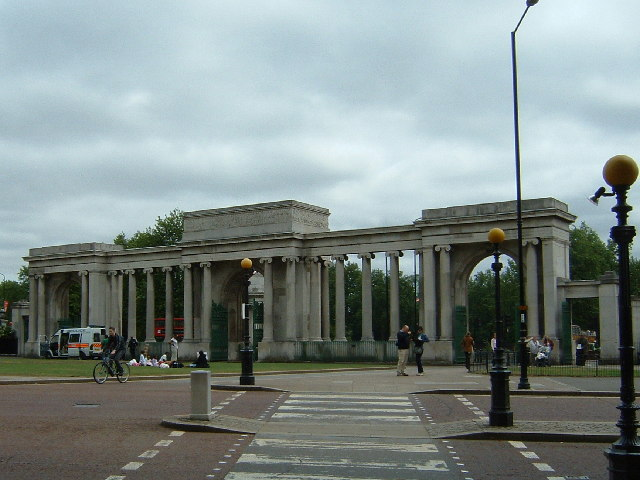 Decimus Burton Screen, Hyde Park Corner. Designed by Decimus Burton, erected 1826-29, contains friezes by Hemming, restored 1992-3